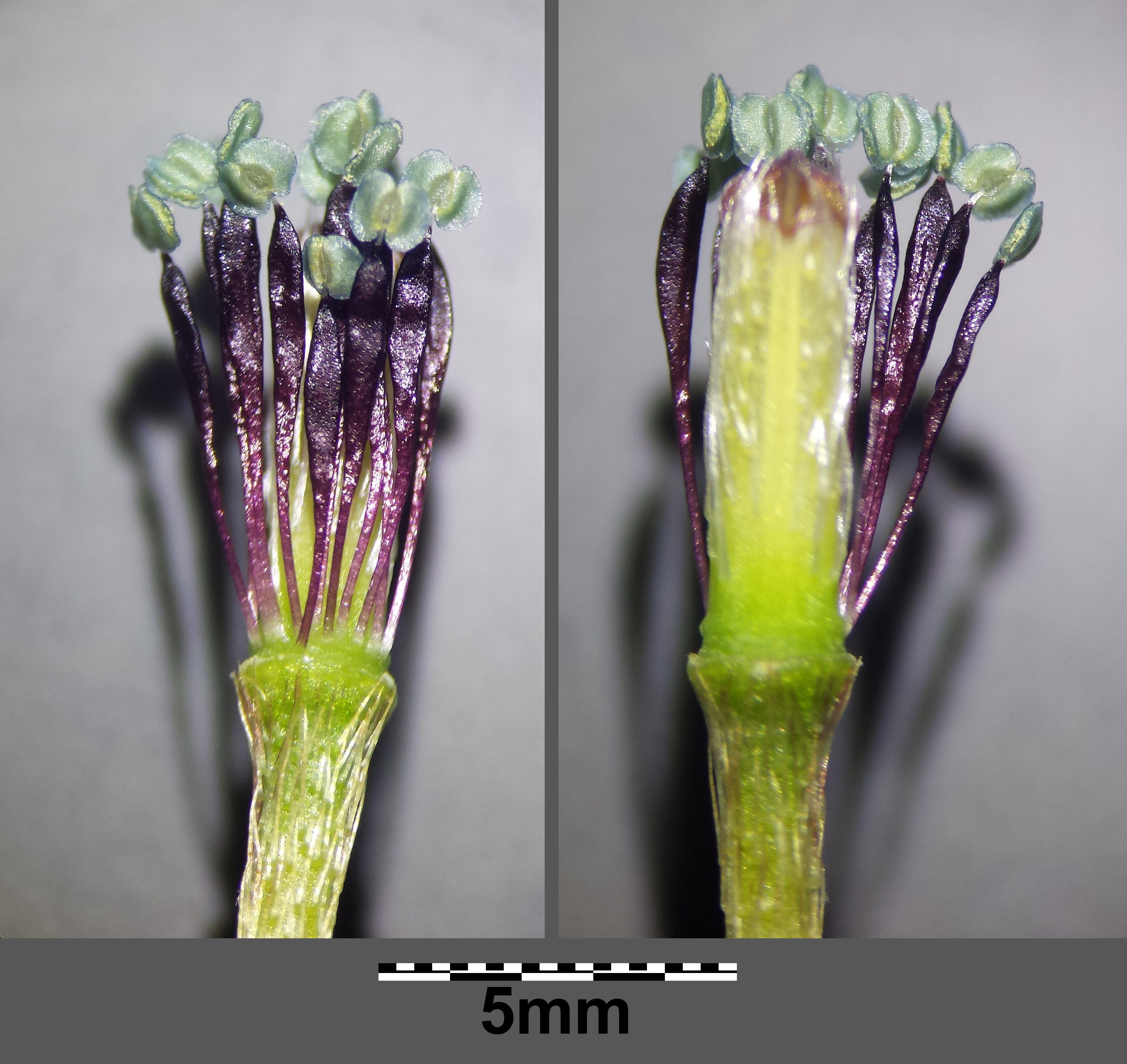 Fruit with stamina Taxonym: Papaver argemone ss Fischer et al. EfÖLS 2008 ISBN 978-3-85474-187-9 Location: Floridsdorf rail station, Vienna-Floridsdorf - ca. 160 m a.s.l. Habitat: ballast